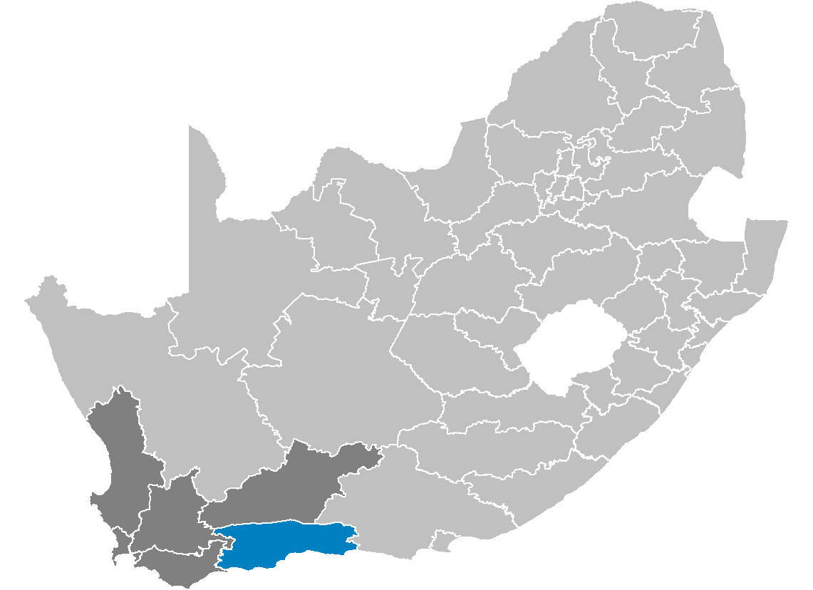 Map showing the Eden District Municipality higlighted within the Western Cape.